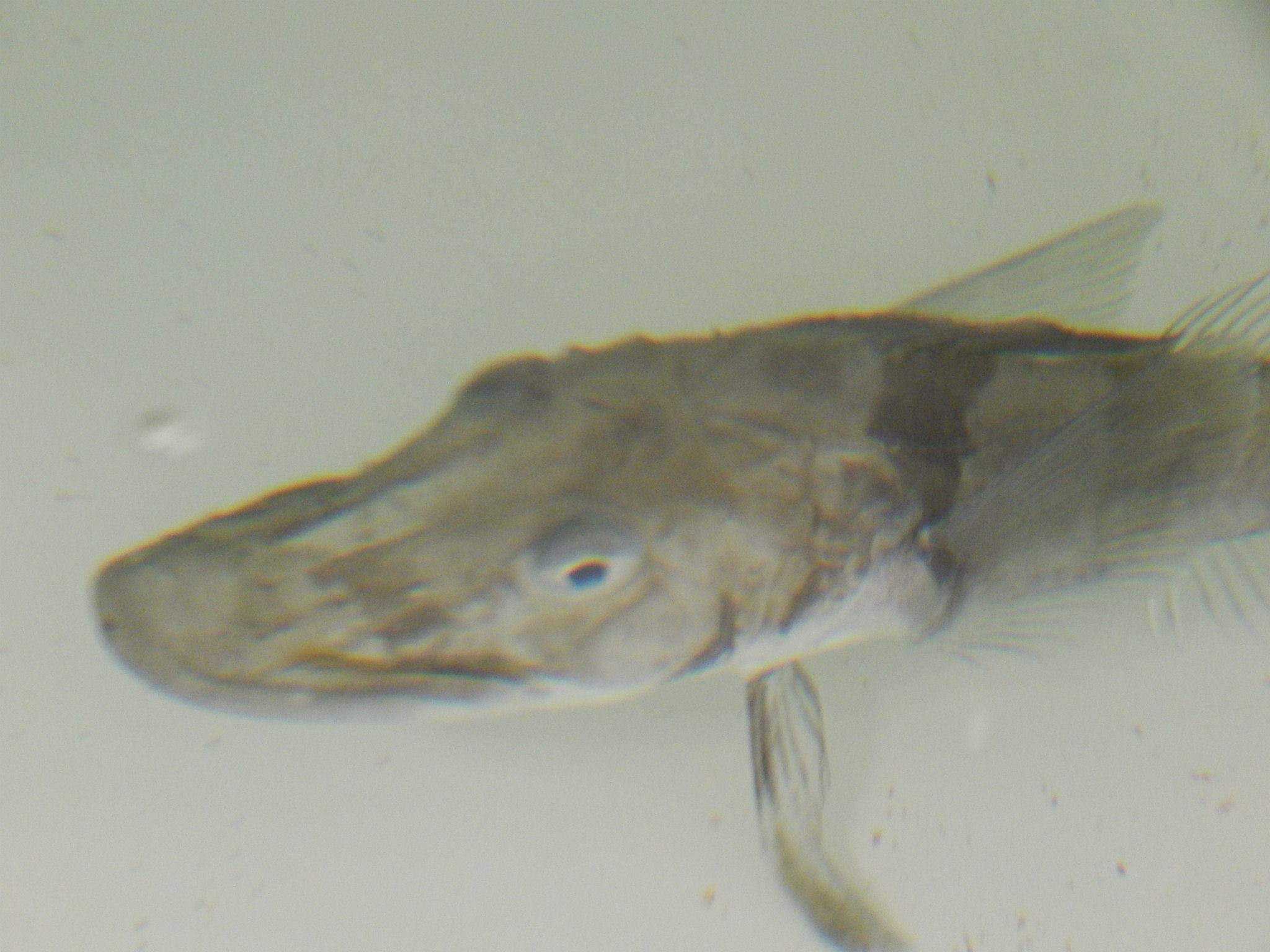 Chaenocephalus aceratus at Palmer Station, Antarctica